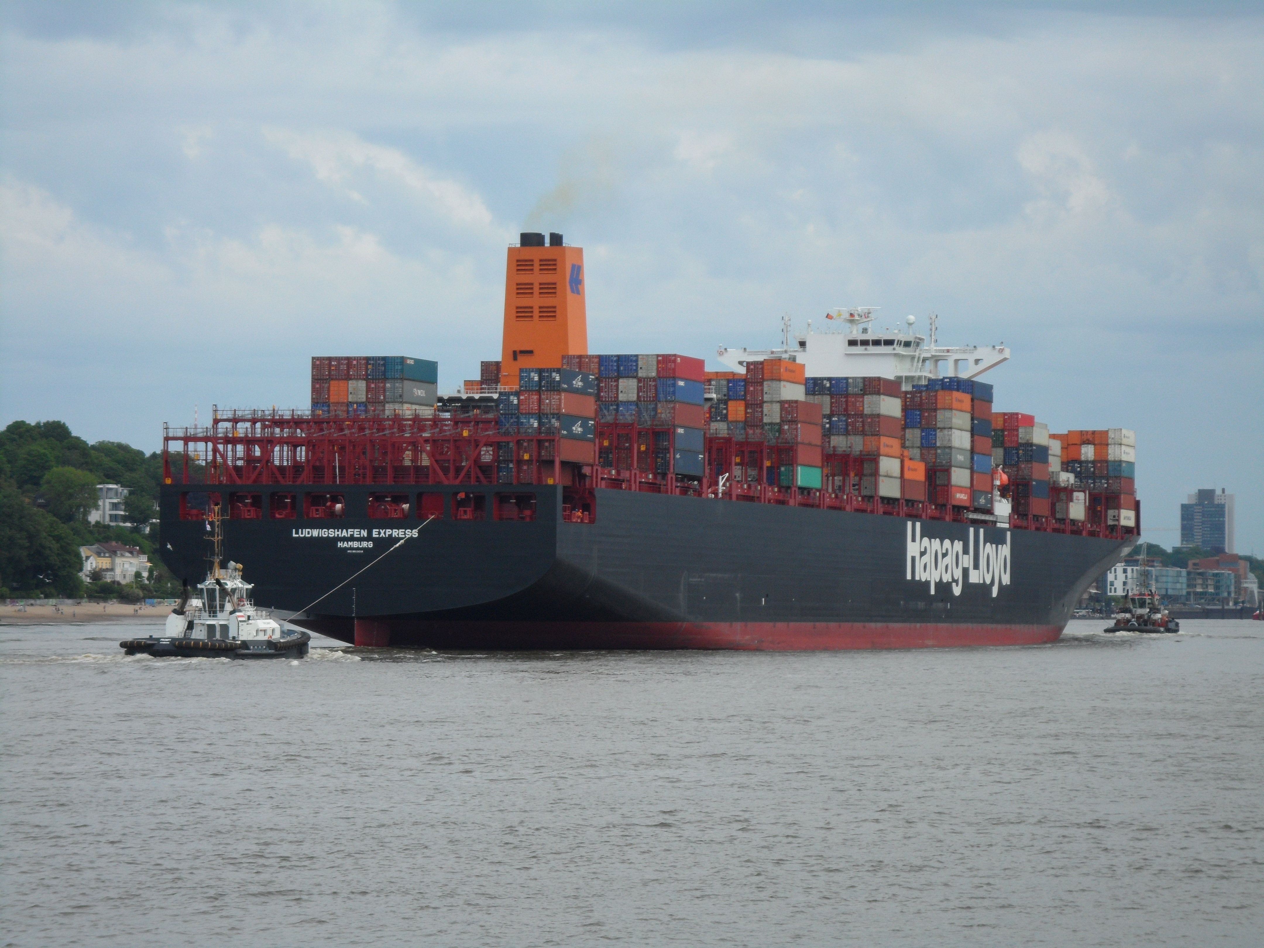 Rear view of the Ludwigshafen Express, arriving port of Hamburg in May 2014 with stern tug Prompt operated by the shipping company Lütgens & Reimers, Hamburg.